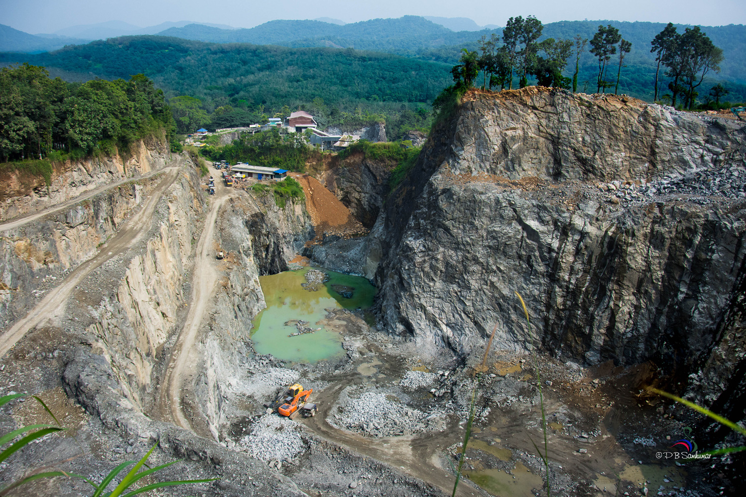 Malayattoor quarry & crusher